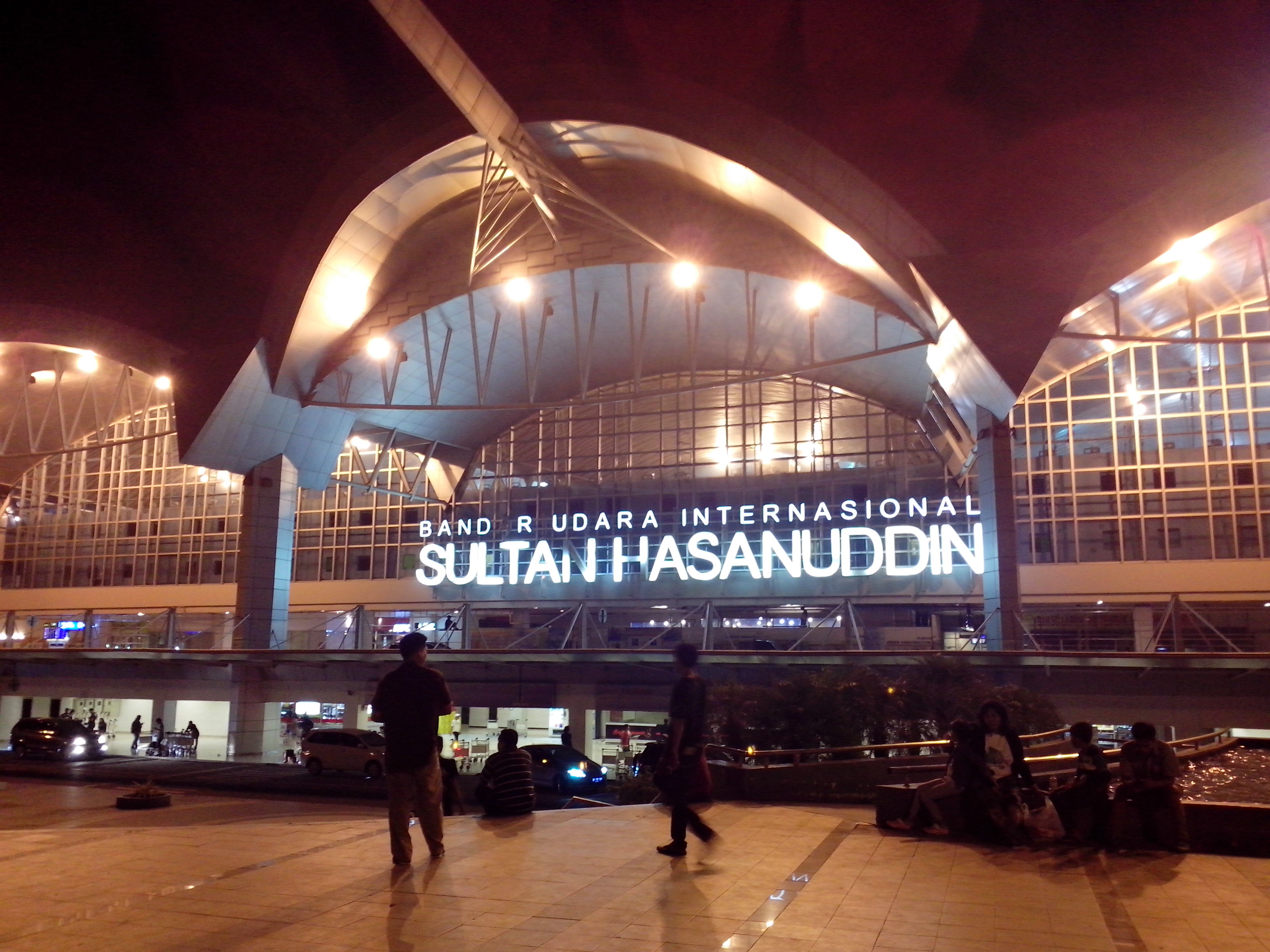 Sultan Hasanuddin International AirportBahasa Indonesia: Bandara Internasional Sultan Hasanuddin